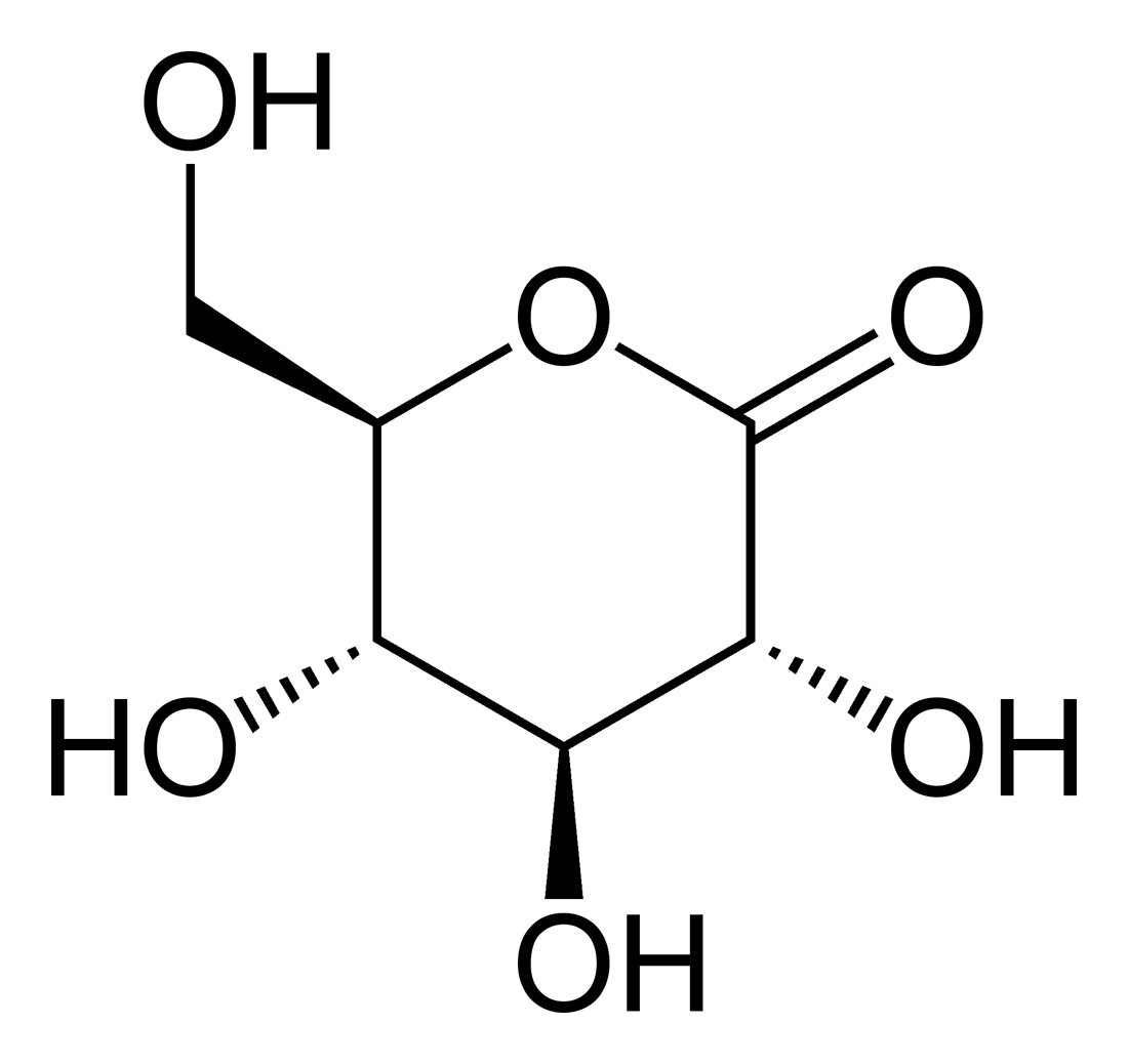 Structure of glucono delta-lactone